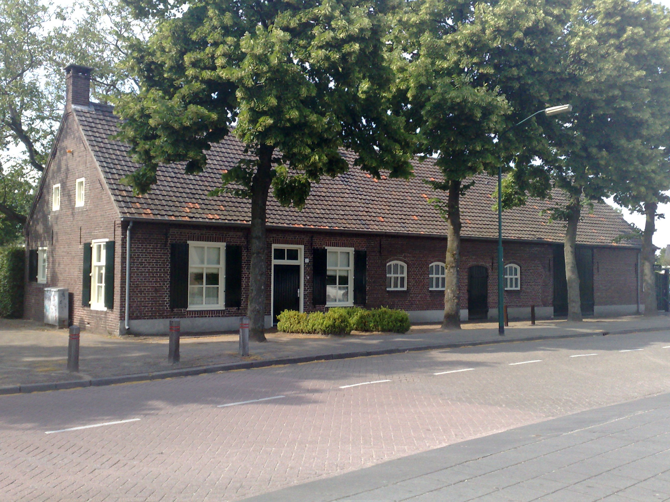 Region museum 'De Acht Zaligheden' at Eersel, North Brabant, Netherlands